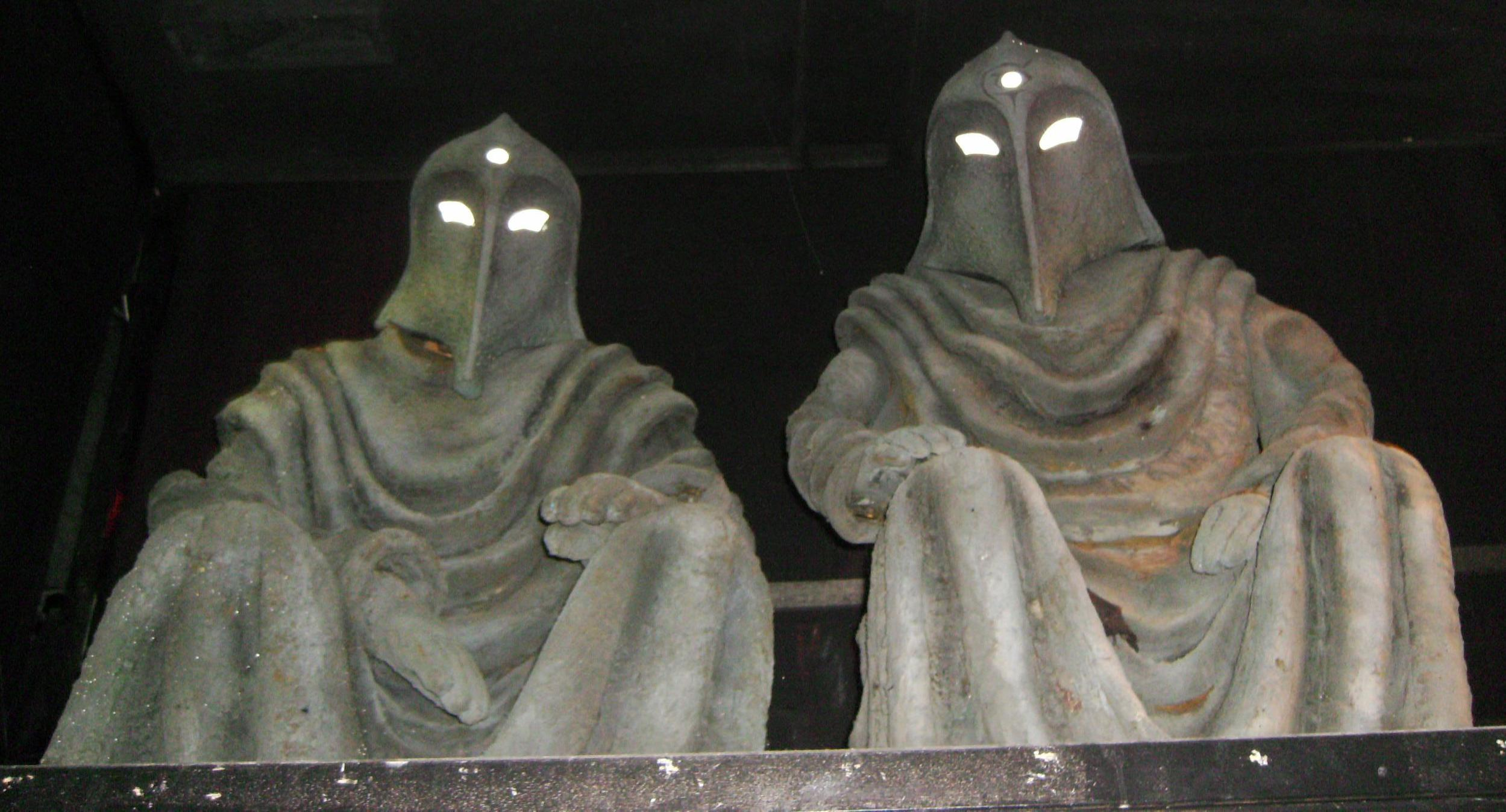 Gods of Ragnorok Doctor Who Experience